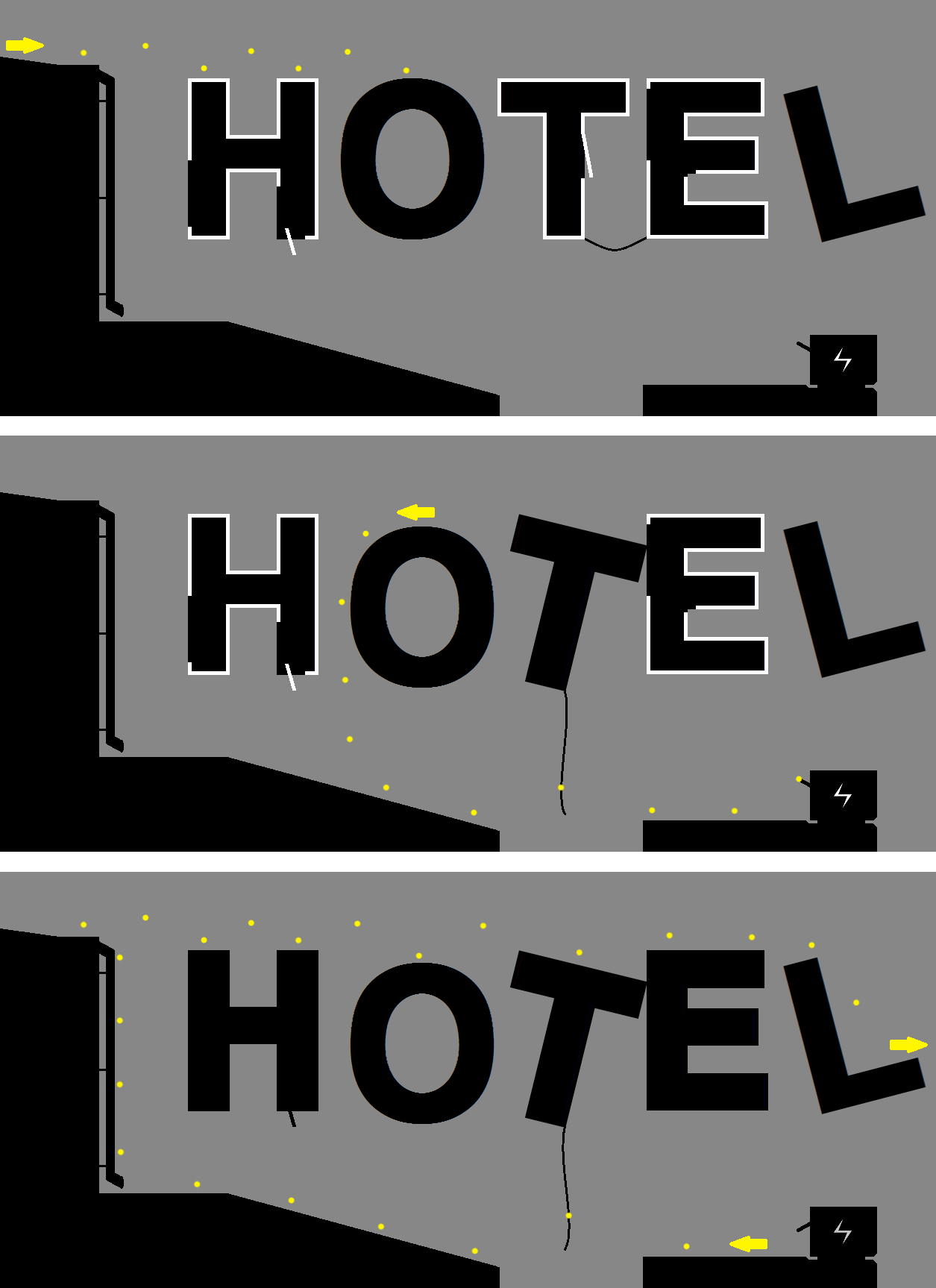 This picture shows the HOTEL sign from the video game Limbo (2010). In the picture the player (indicated by the yellow dots) will need to change his environment by, in this case, both jumping on objects and pulling levers in order to advance in the game. The three pictures shows the situation the player first faces (top picture), what it looks like after the player has jumped on the O (second picture) and finally how the completed puzzle looks like after the electricity is shut off (bottom picture).